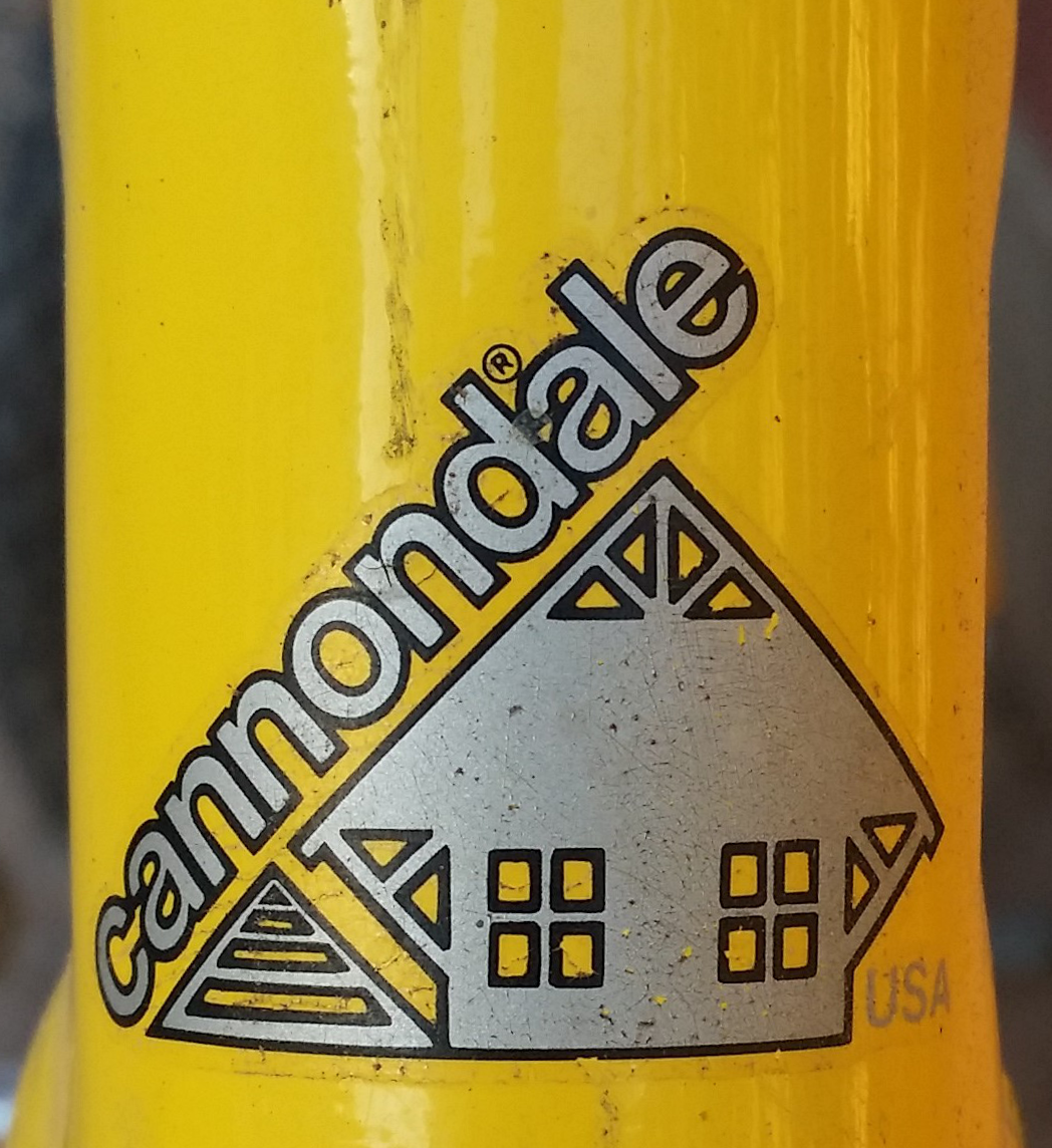 1985 Cannondale head badge